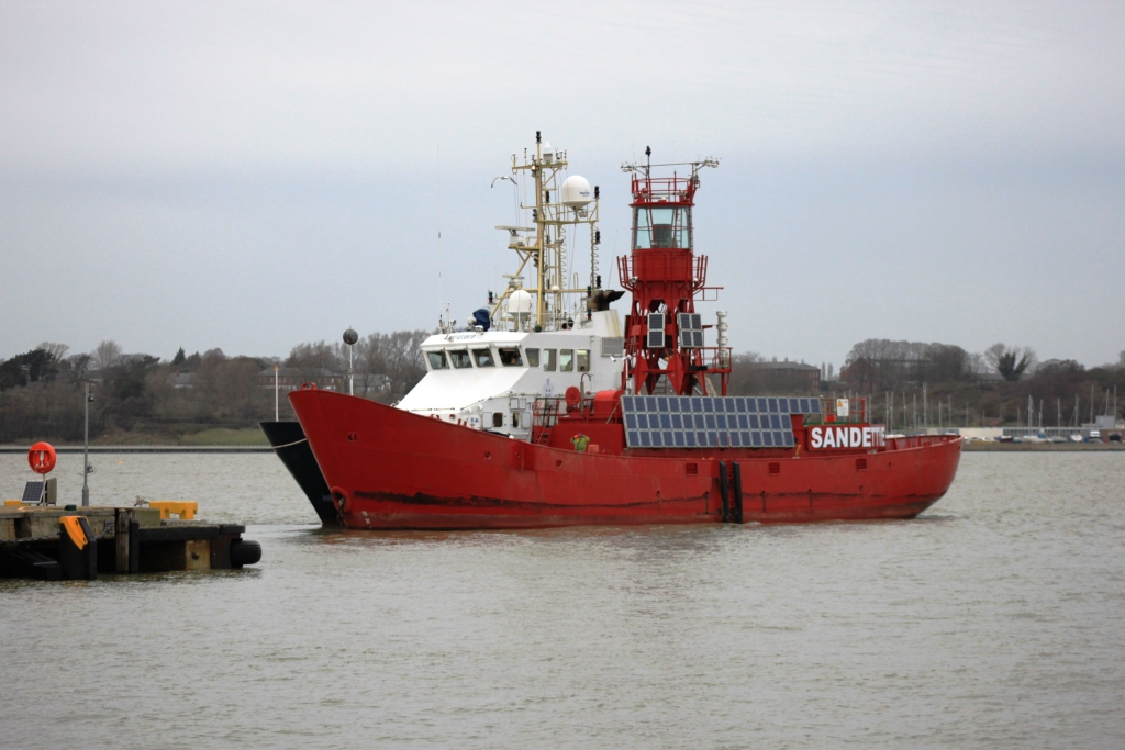 The Lightship Sandettie is moved from the Trinity House depot at Harwich to moorings in the River Stour by the MV Alert.